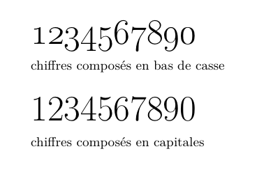 Top: Old-style or "hanging" or "x-height" numerals; bottom: modern or "cap-height" numerals; 150dpi 6,23cm × 4,18cm.